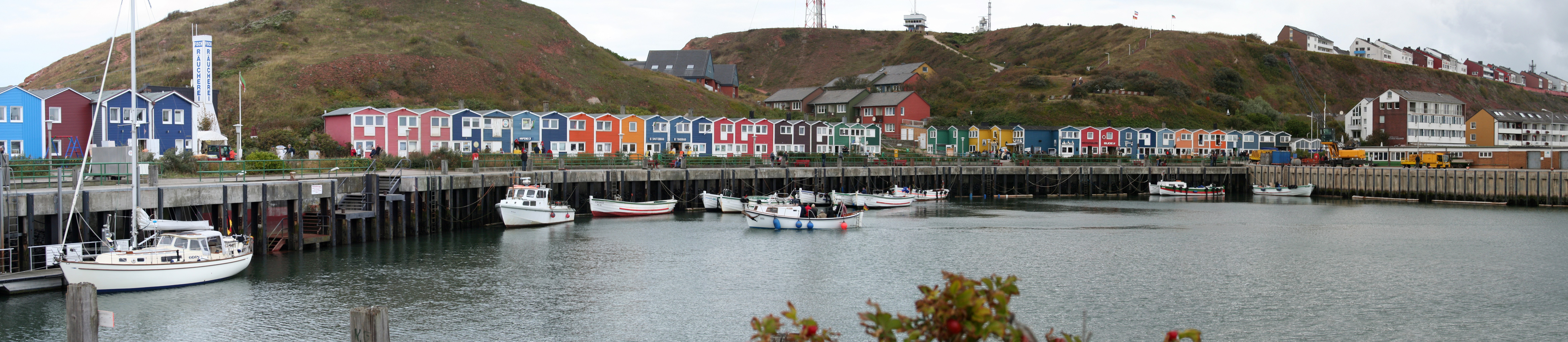 Heligoland, lower land with "Hummerhütten" ("lobster huts" in former times inhabited by fishermen)